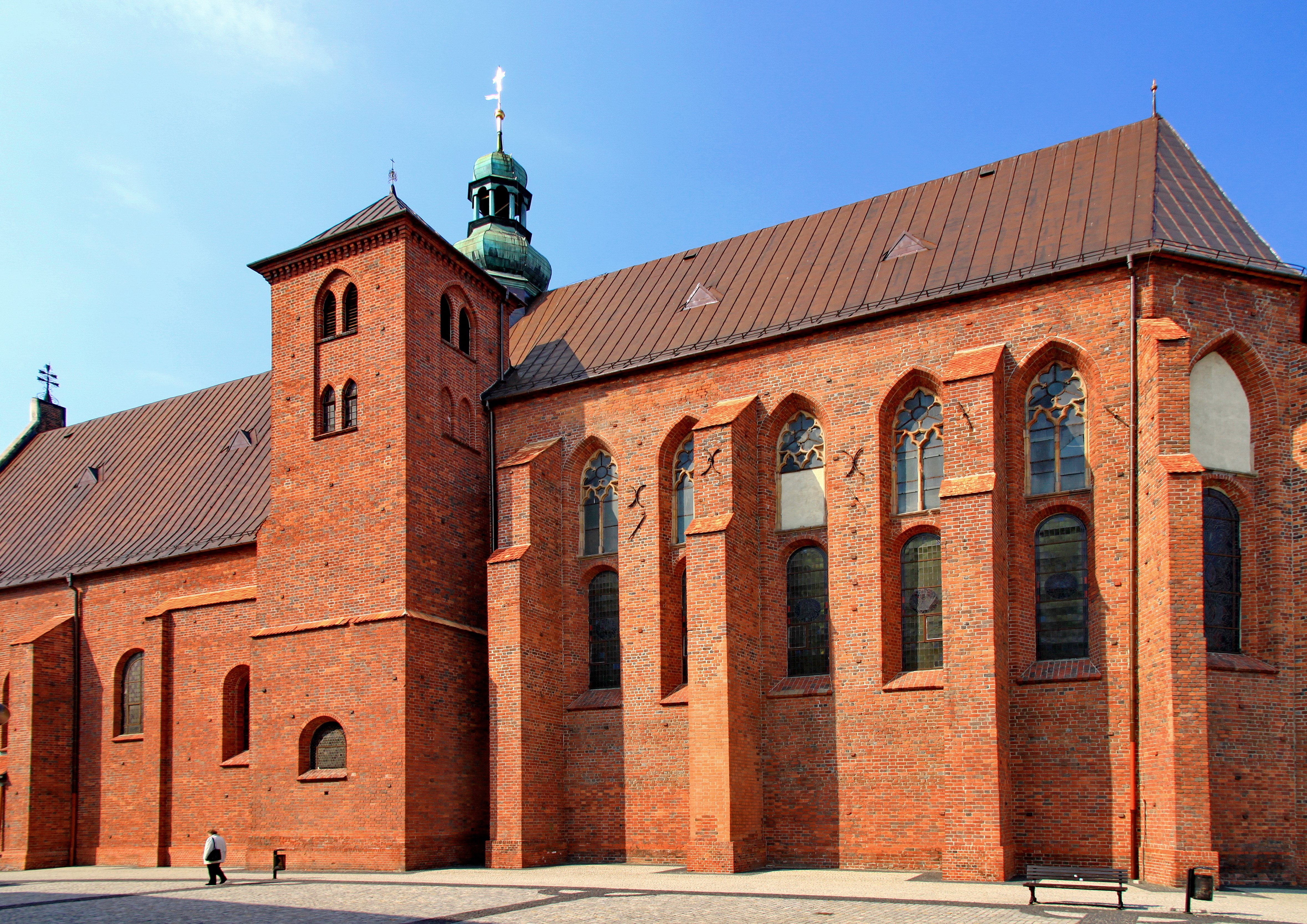 Racibórz, former Dominican Order church, now Saint James church, 13th century, 15th century, 1874, 1947